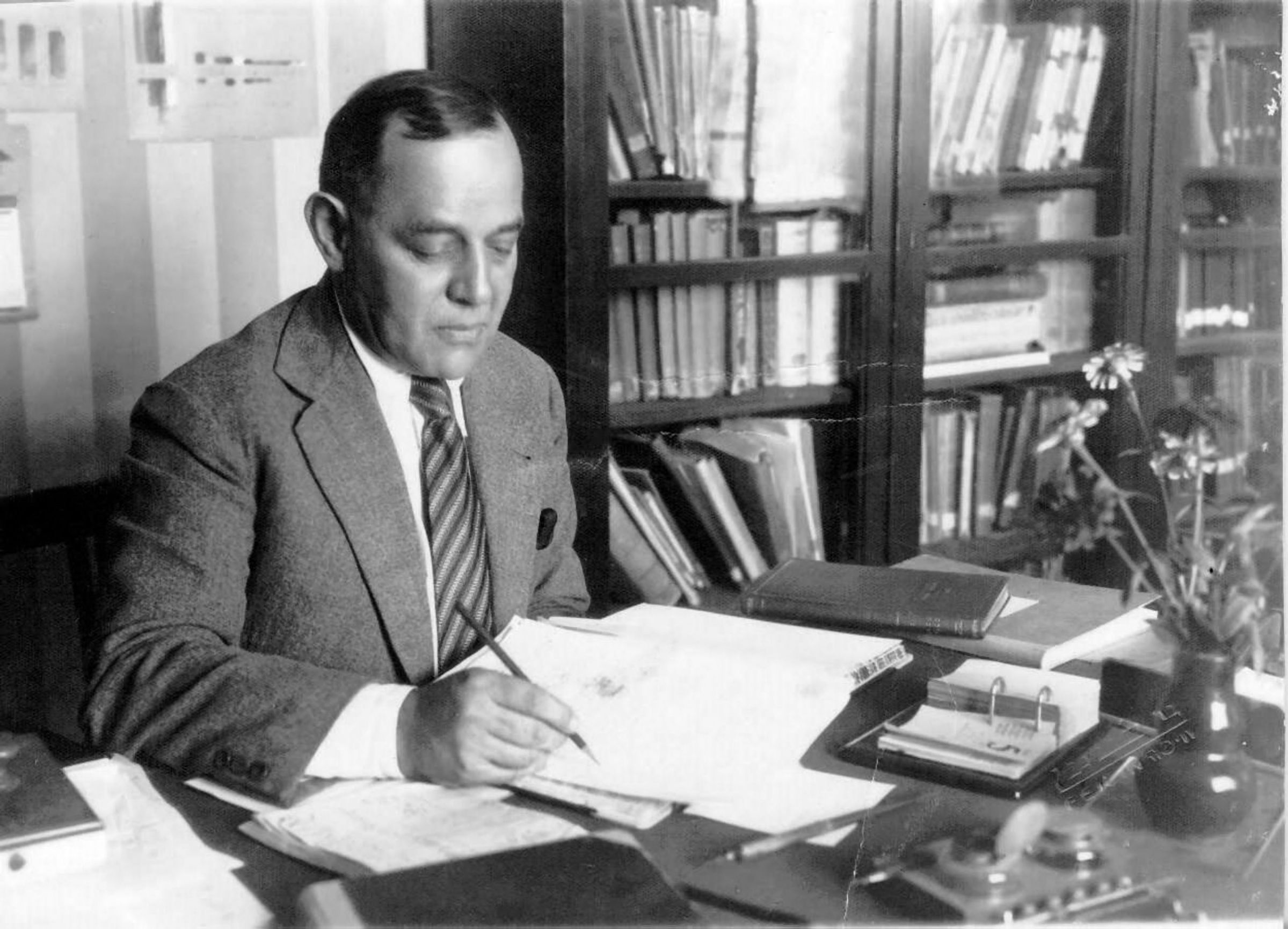 Dr. Arthur Biram, founder and director of HaReali School in Haifa, Haifa, 1928